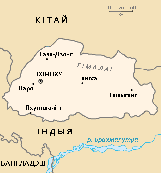 Map of Bhutan in Belarusian